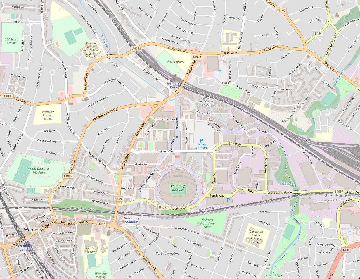 This map may be incomplete, and may contain errors. Don't rely solely on it for navigation.